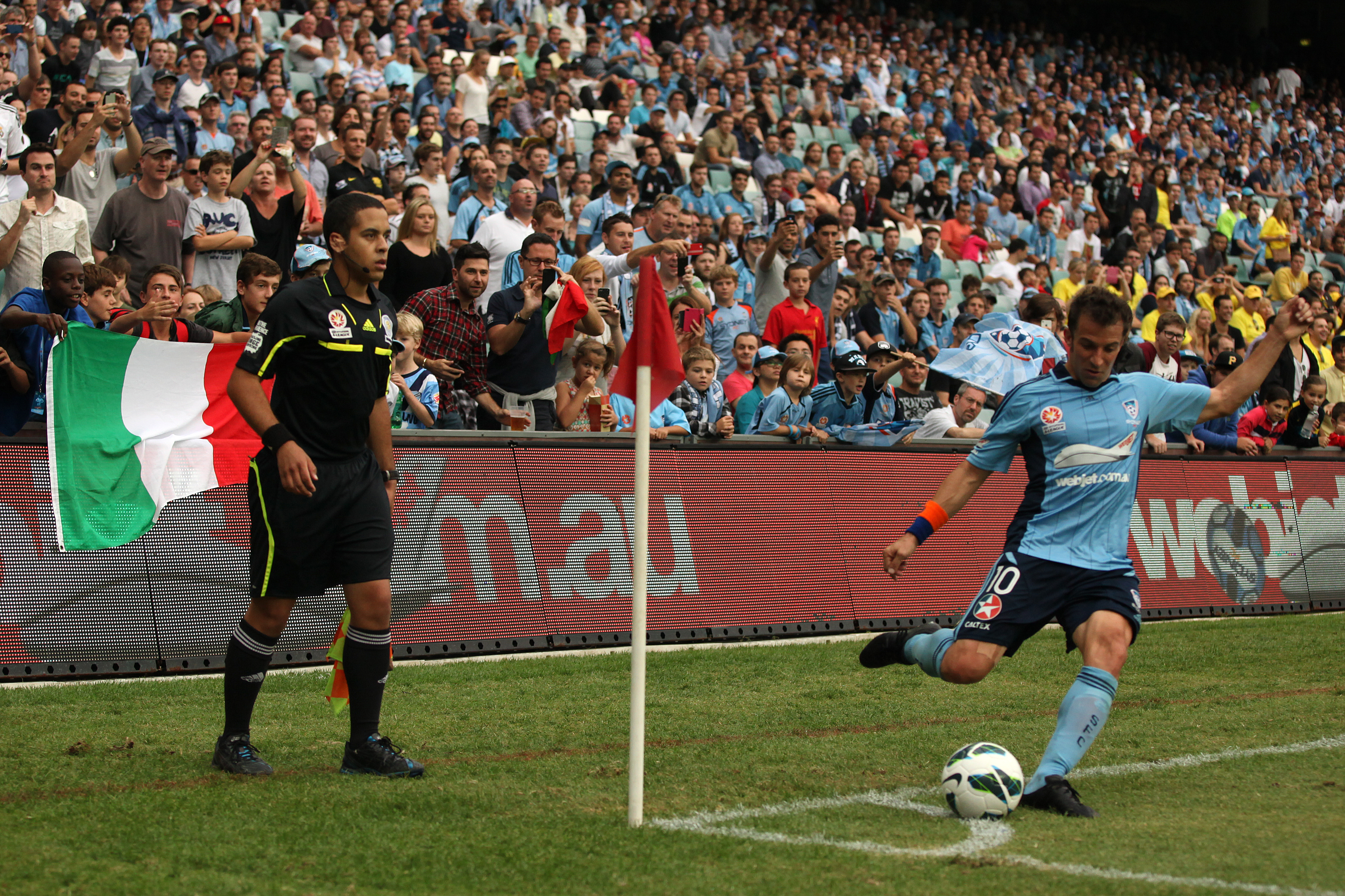 Alex Del Piero playing for Sydney FC.